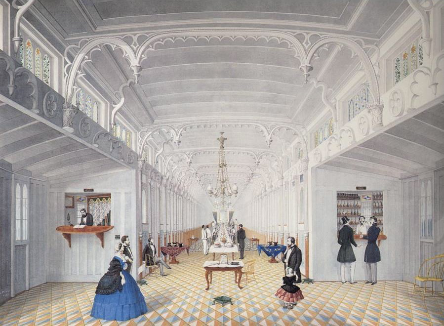 Saloon of Mississippi River Steamboat "Princess" 1861 gauche and collage painting by M Adrien Persac.